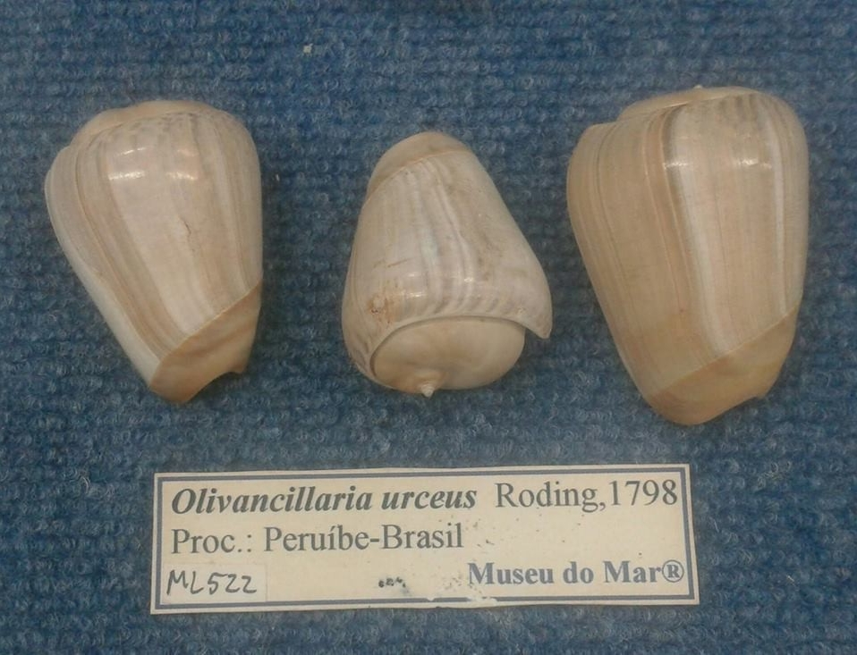 Three mollusc seashells of Olivancillaria urceus (Röding, 1798)[1] photographed in Museu do Mar (Sea Museum), Santos, São Paulo, Brazil. Specimens of Peruíbe.